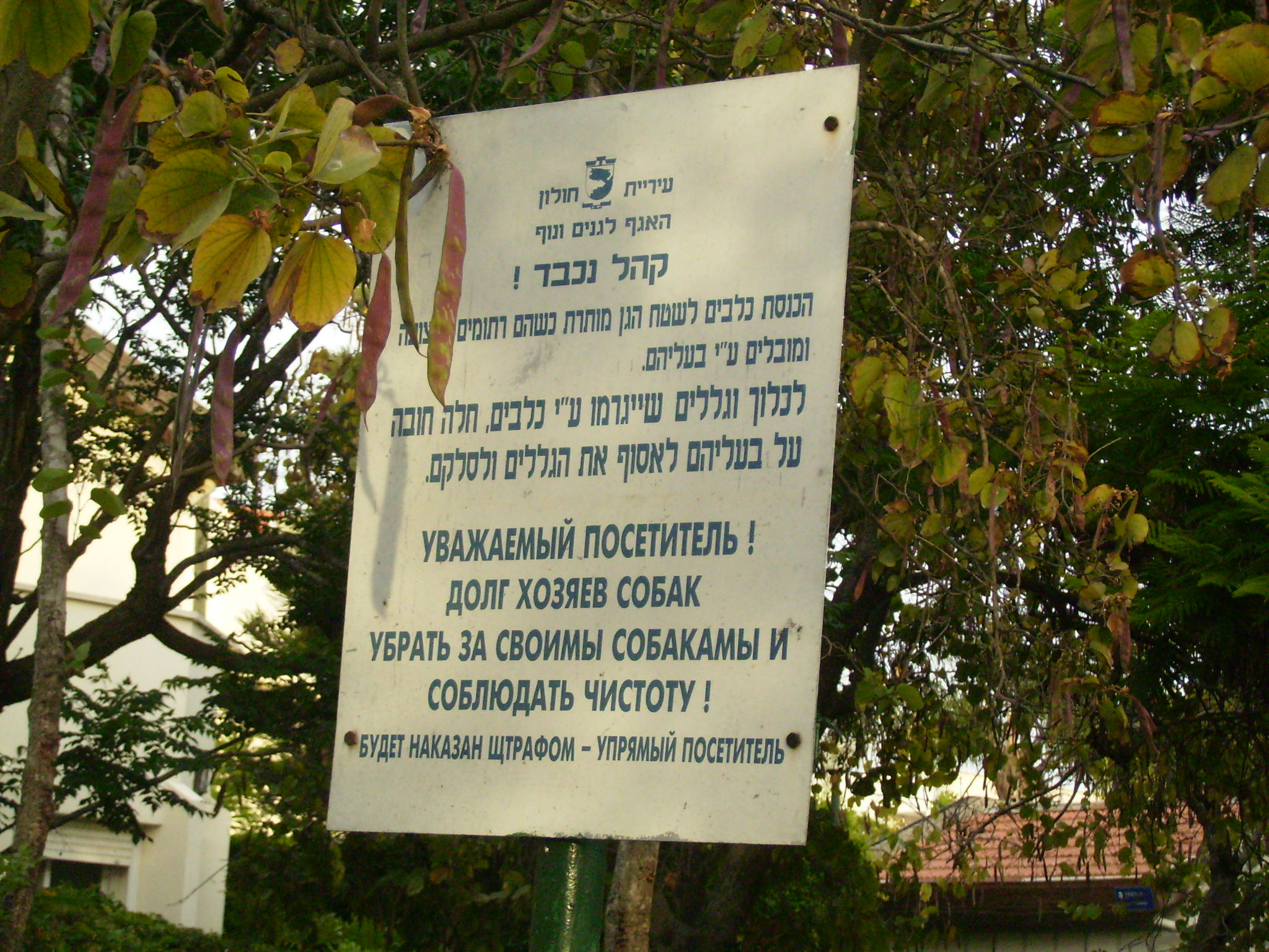 Bilingual Hebrew–Russian sign at a public garden in Holon, Israel. There are numerous misspelled words in the Russian text.